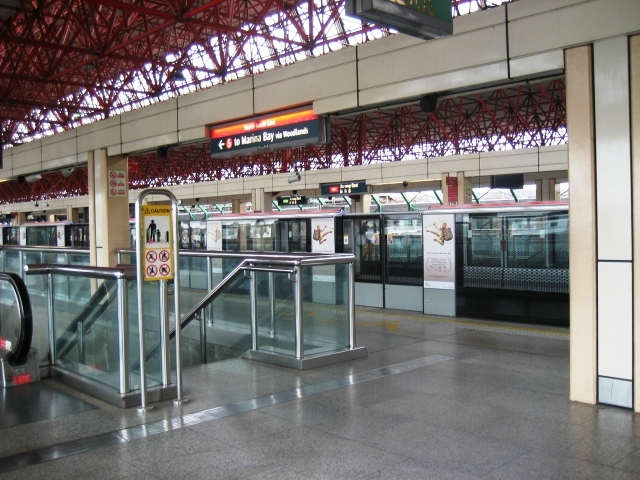 One of the platforms of Jurong East MRT Station in Jurong, Singapore.